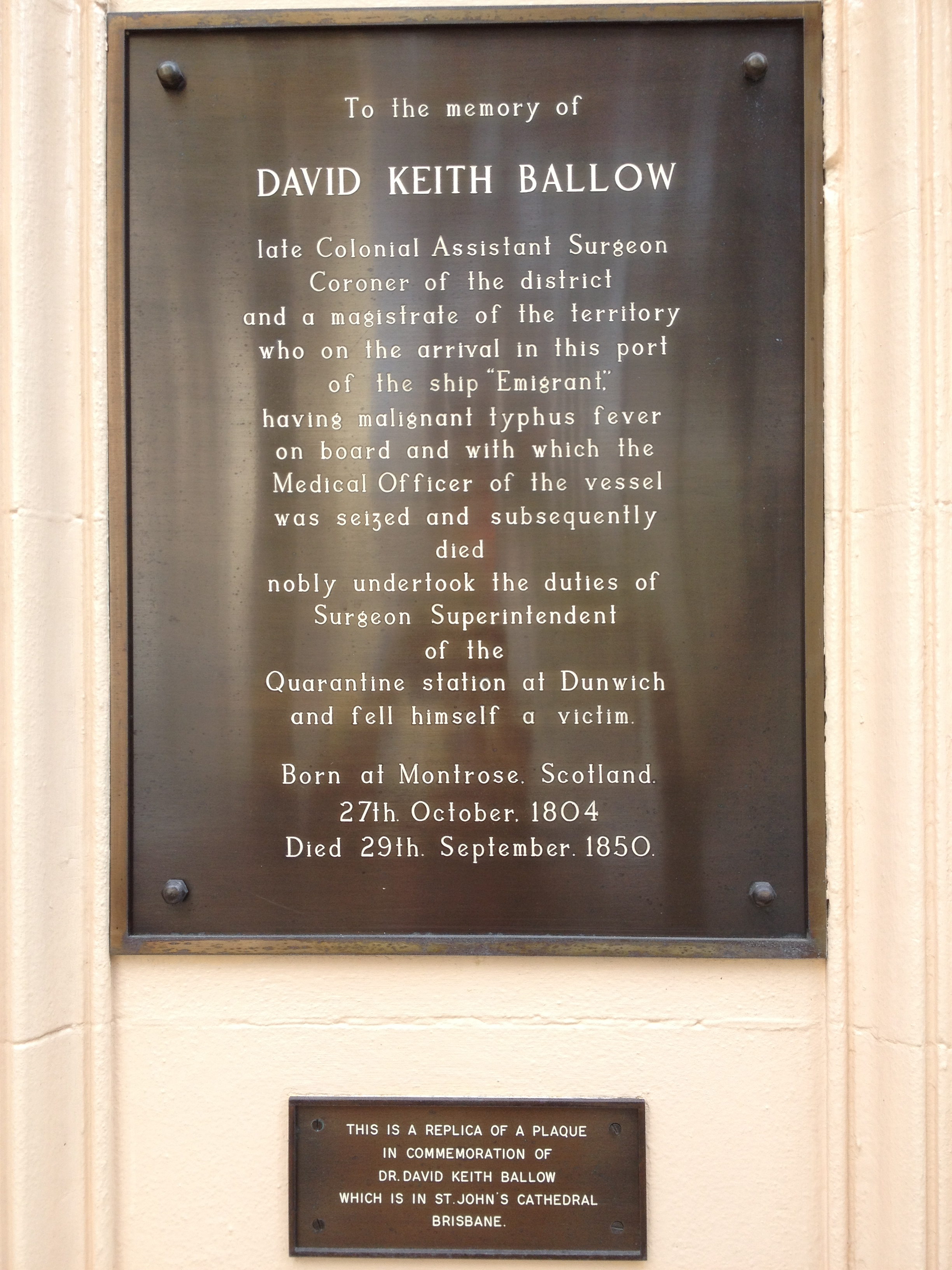 Ballow Chambers, 121 Wickham Terrace, Brisbane